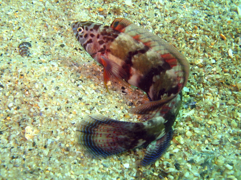 A Snakeskin Wrasse (Eupetrichthys angustipes). Fairy Bower, Manly, NSW